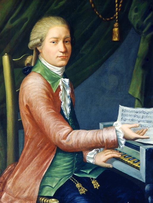 Portrait of composer Yevstigney Fomin, Museum Palace Theatre Ostankino, Moscow